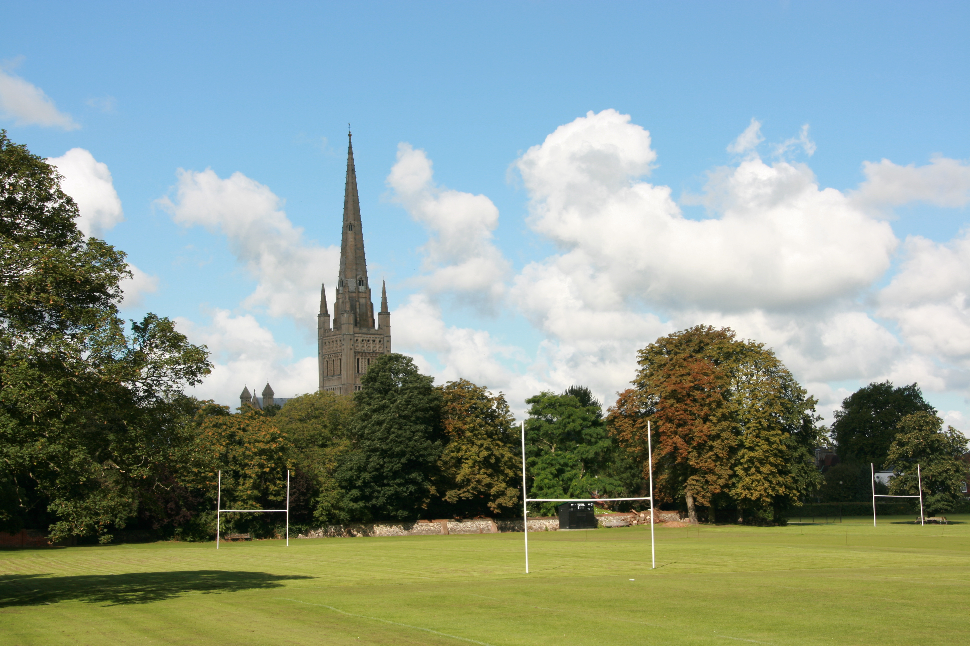 Lower Close, Norwich, Norfolk, with the cathedral steeple beyond